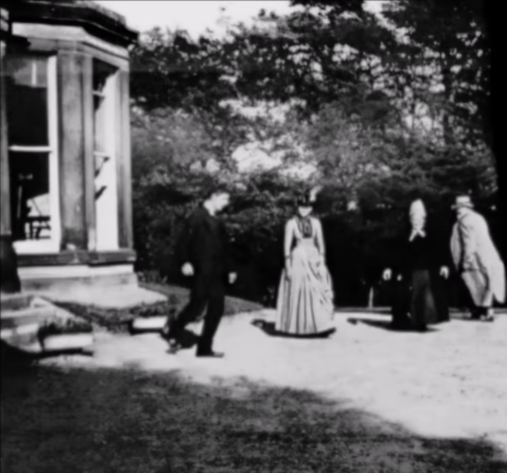 A screenshot of Roundhay Garden Scene by the French Louis Le Prince. The world's first film, shot on 14 October 1888 at Oakwood Grange in Roundhay, Leeds, West Yorkshire, England. The home of Joseph and Sarah Whitley, the in-laws of Louis Le Prince. Note that Sarah (shown second from right) died on 24 October 1888, only 10 days after being filmed in the movie.